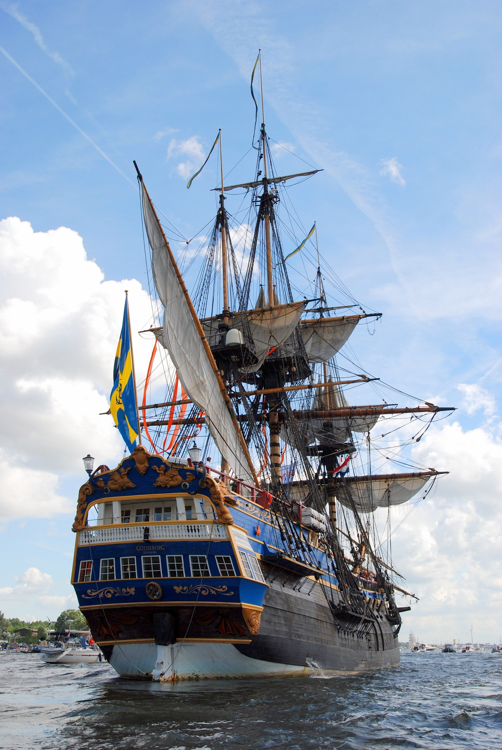 Amsterdam Sail 2010 - Gotheborg